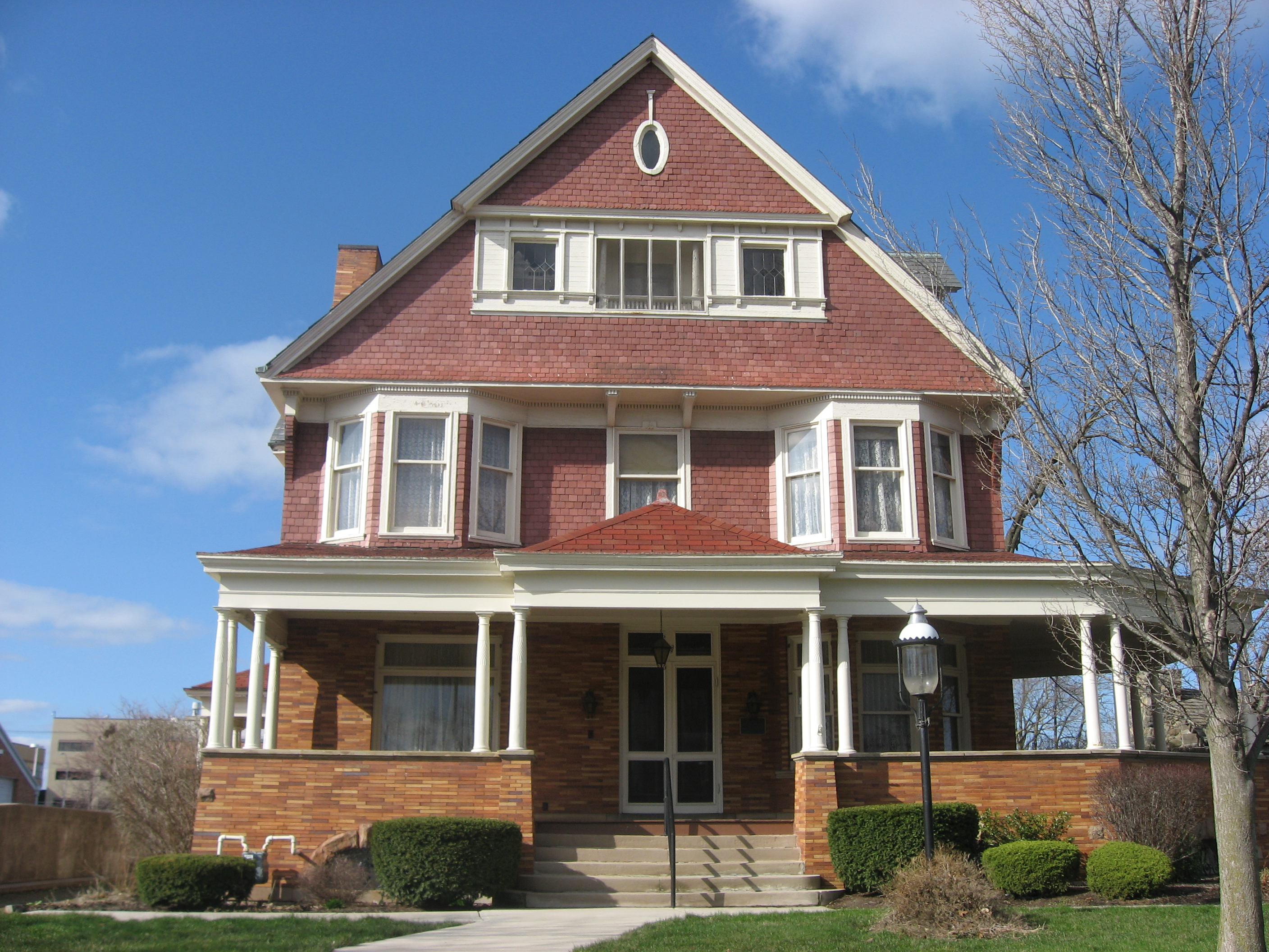 Front of the MacDonell House, located at 632 W. Market Street in Lima, Ohio, United States. Built in 1893 and currently used as the museum of the Allen County Historical Society, it is listed on the National Register of Historic Places.